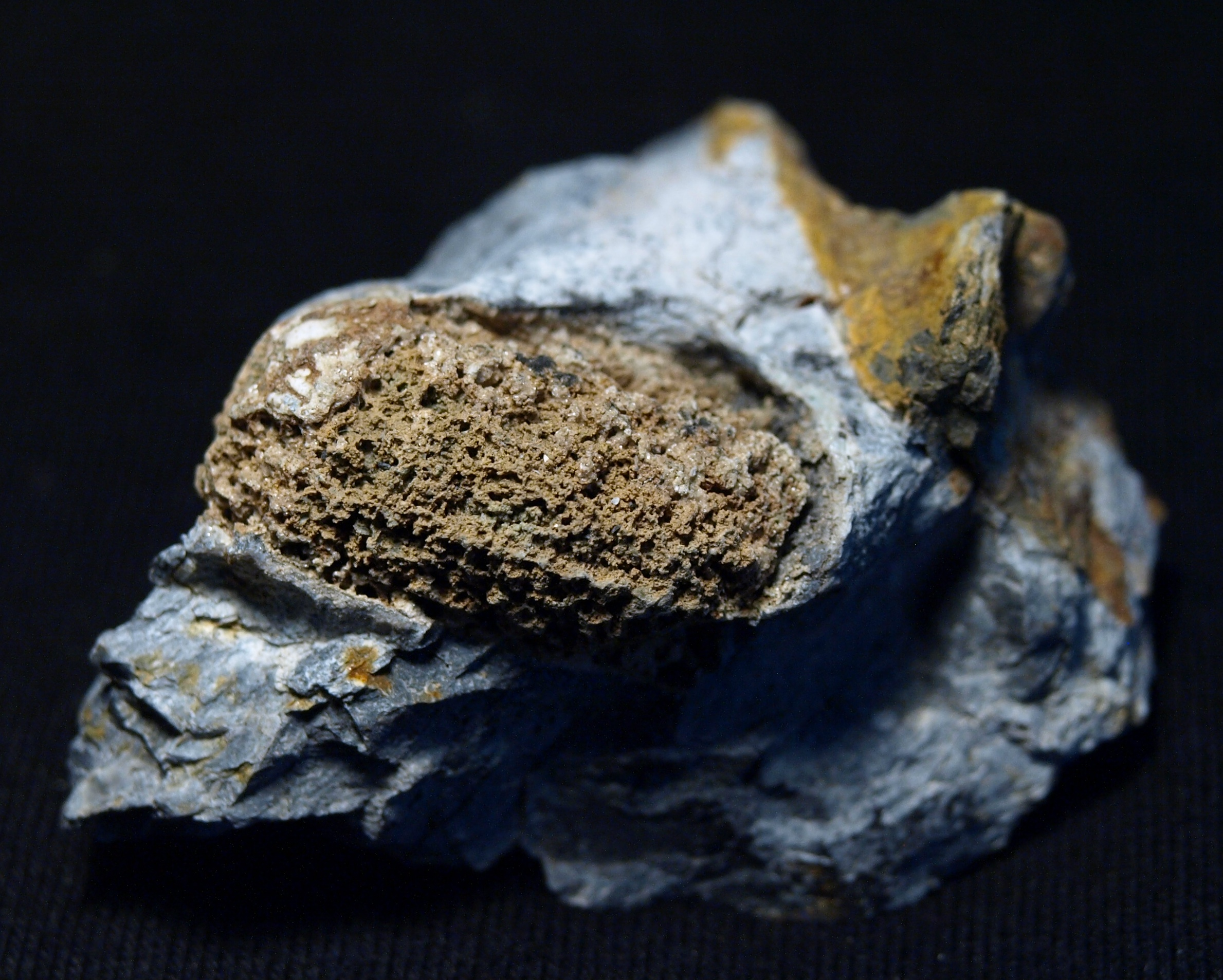 Calcioferrite, from Montcada hill quarry (Montcada i Reixac, Vallès Occidental, Barcelona, Catalonia). Piece from 2009.